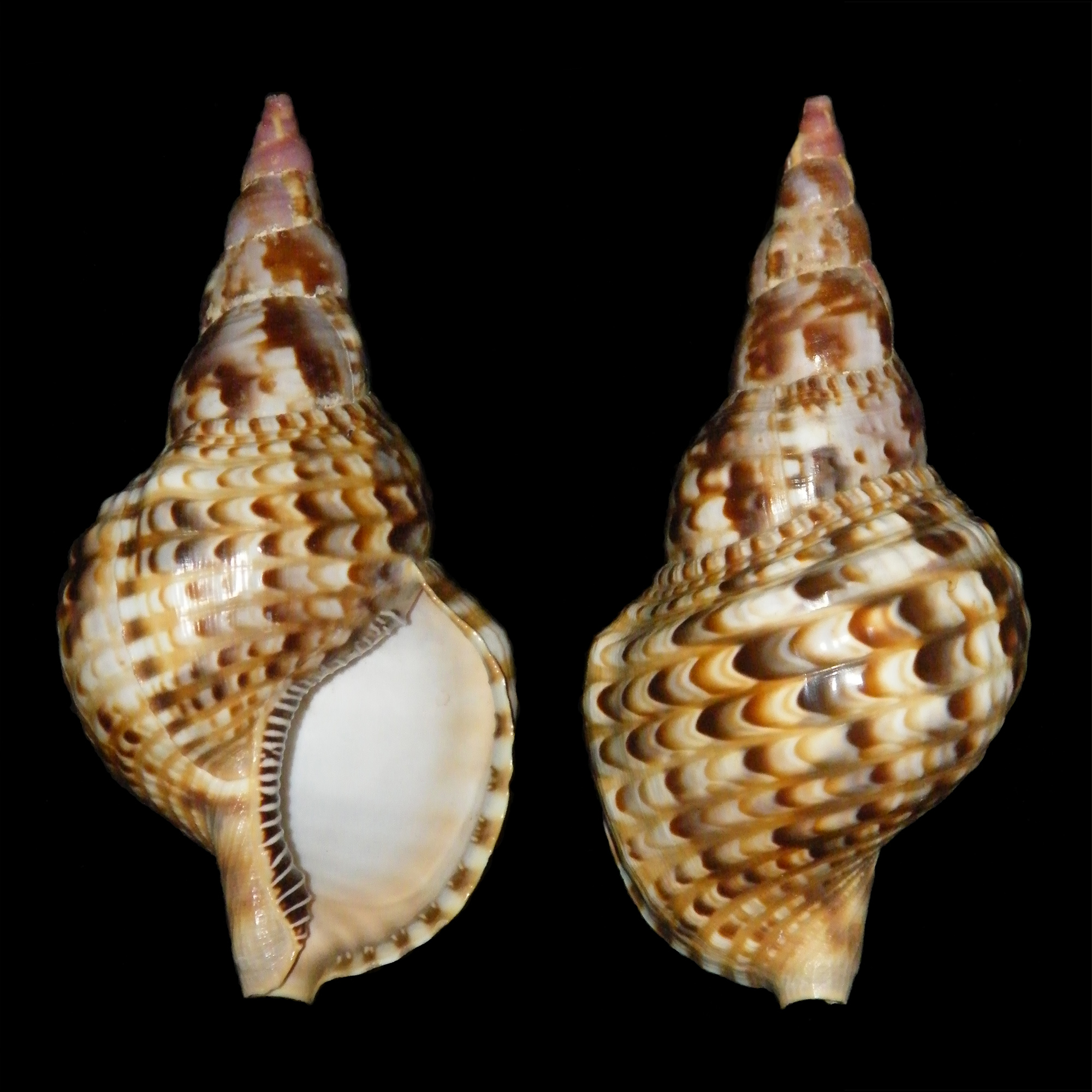 Charonia variegata Lamarck, 1816.